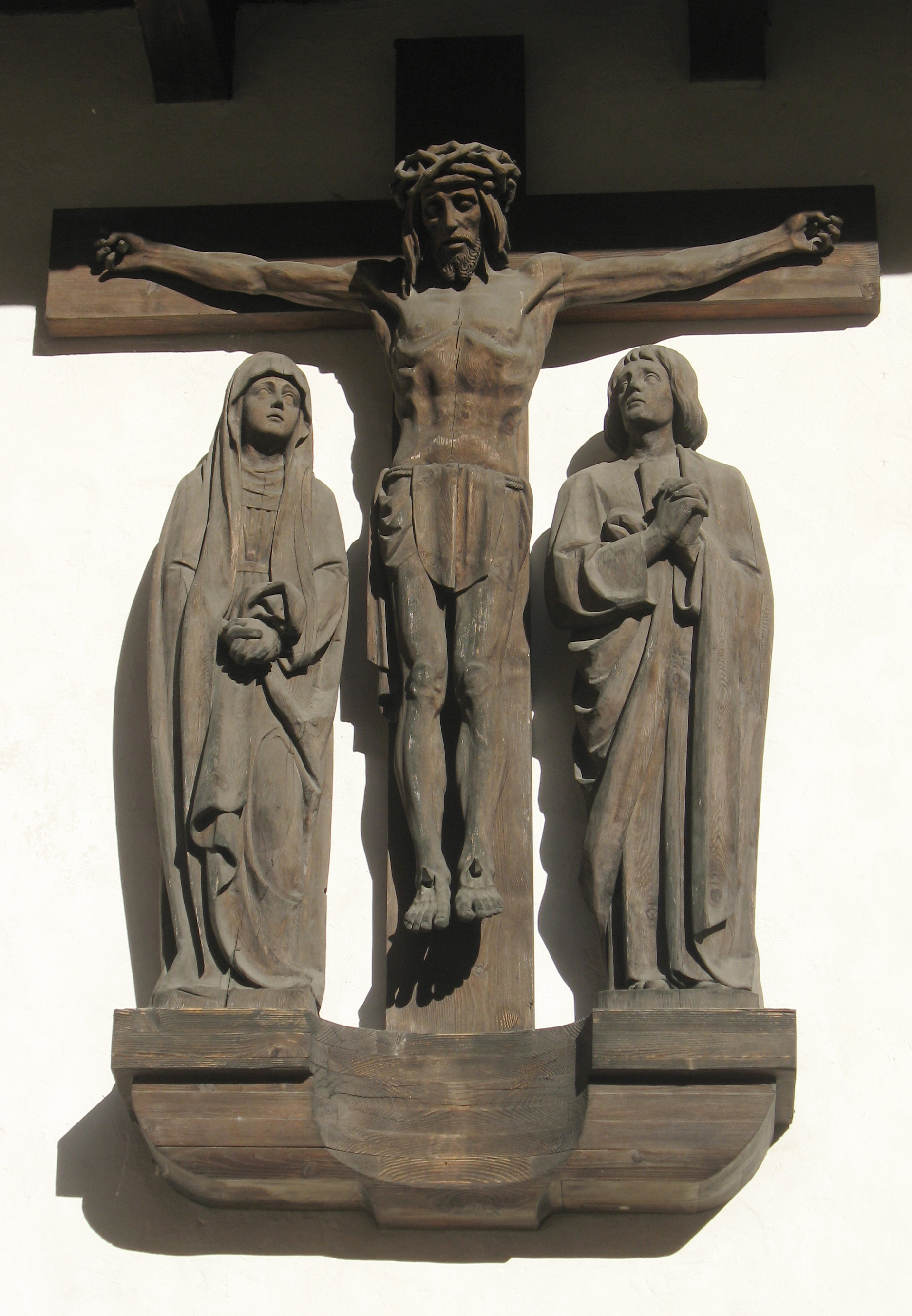 From the parish church of Waidbruck South Tyrol Crucifiction by Valentin Gallmetzer